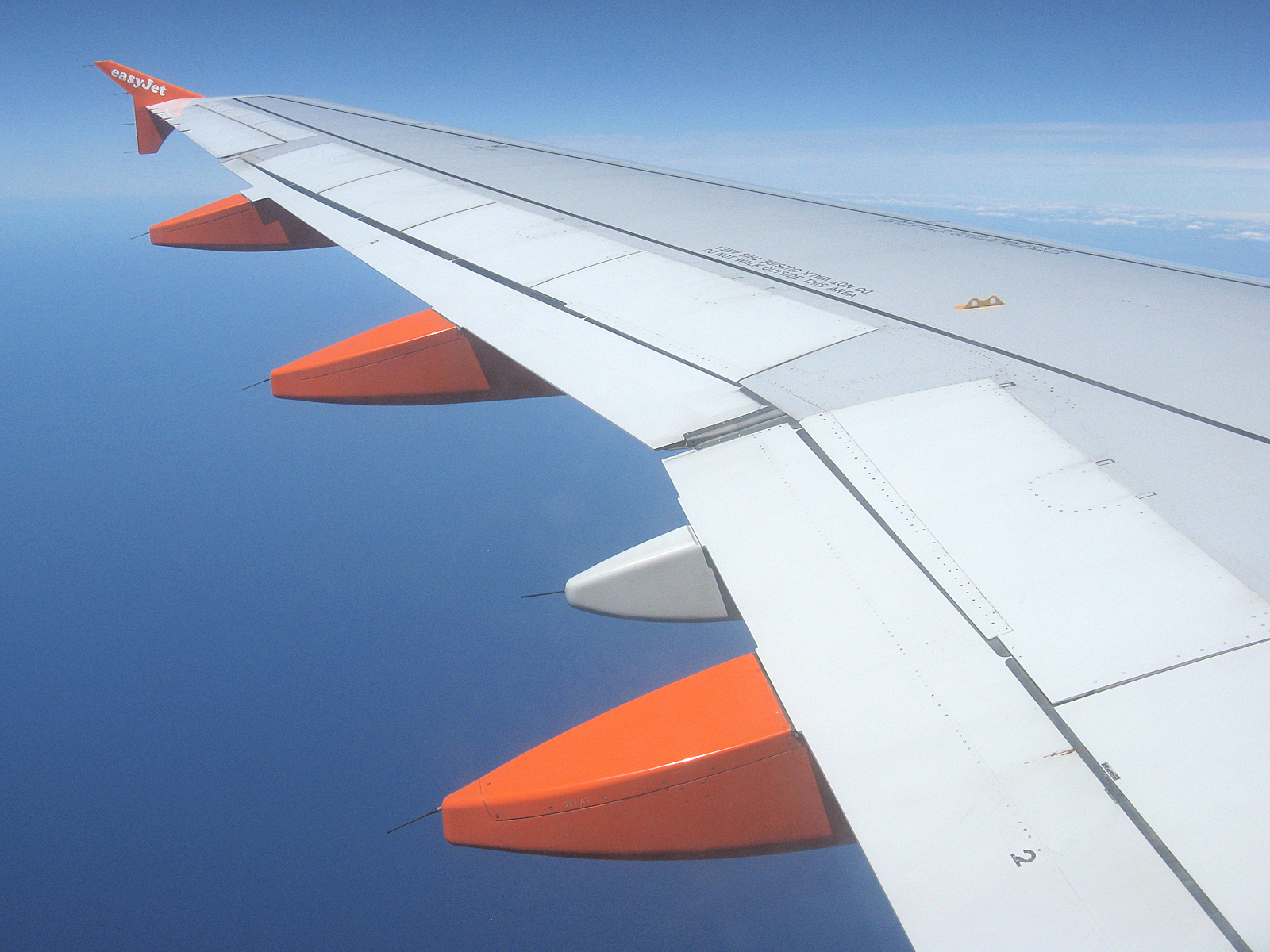 The escape rope bracket (yellow) on an Easyjet Airbus A319-100 (G-EZAV) during a flight to Bristol, England from Palma Airport, Majorca, Spain.